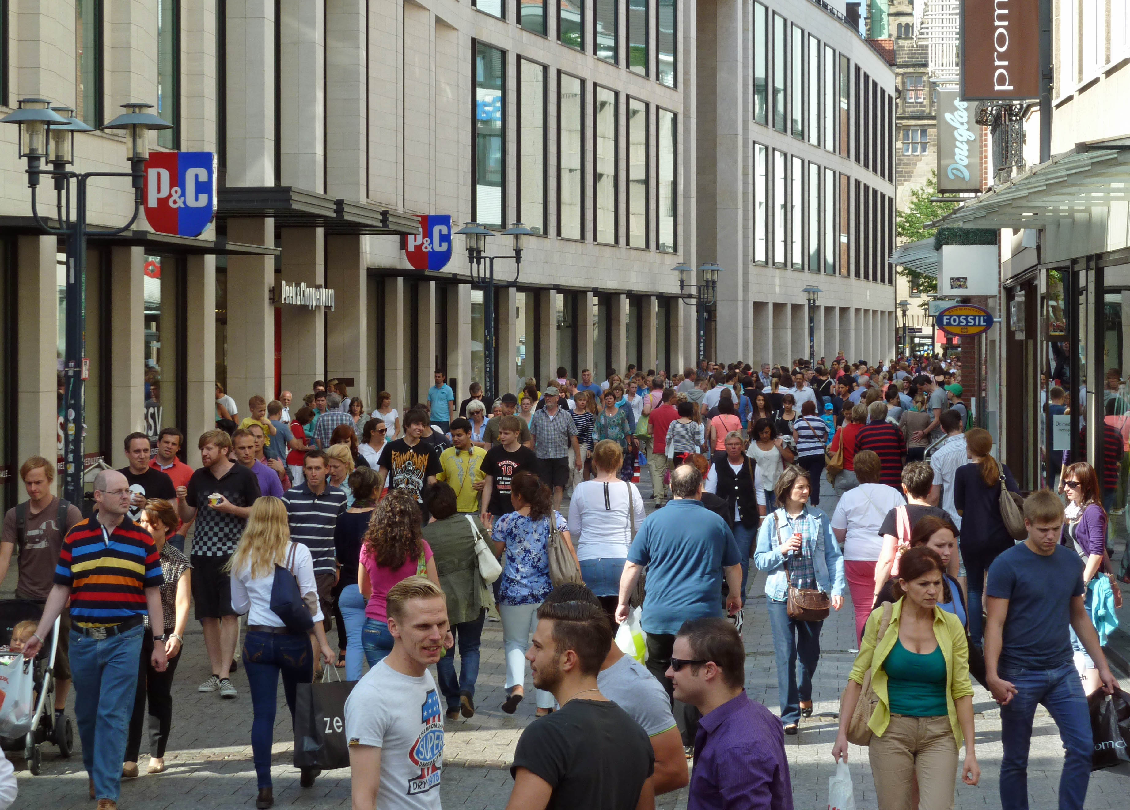 Münsters most frequented shopping street on a saturday in july 2013.